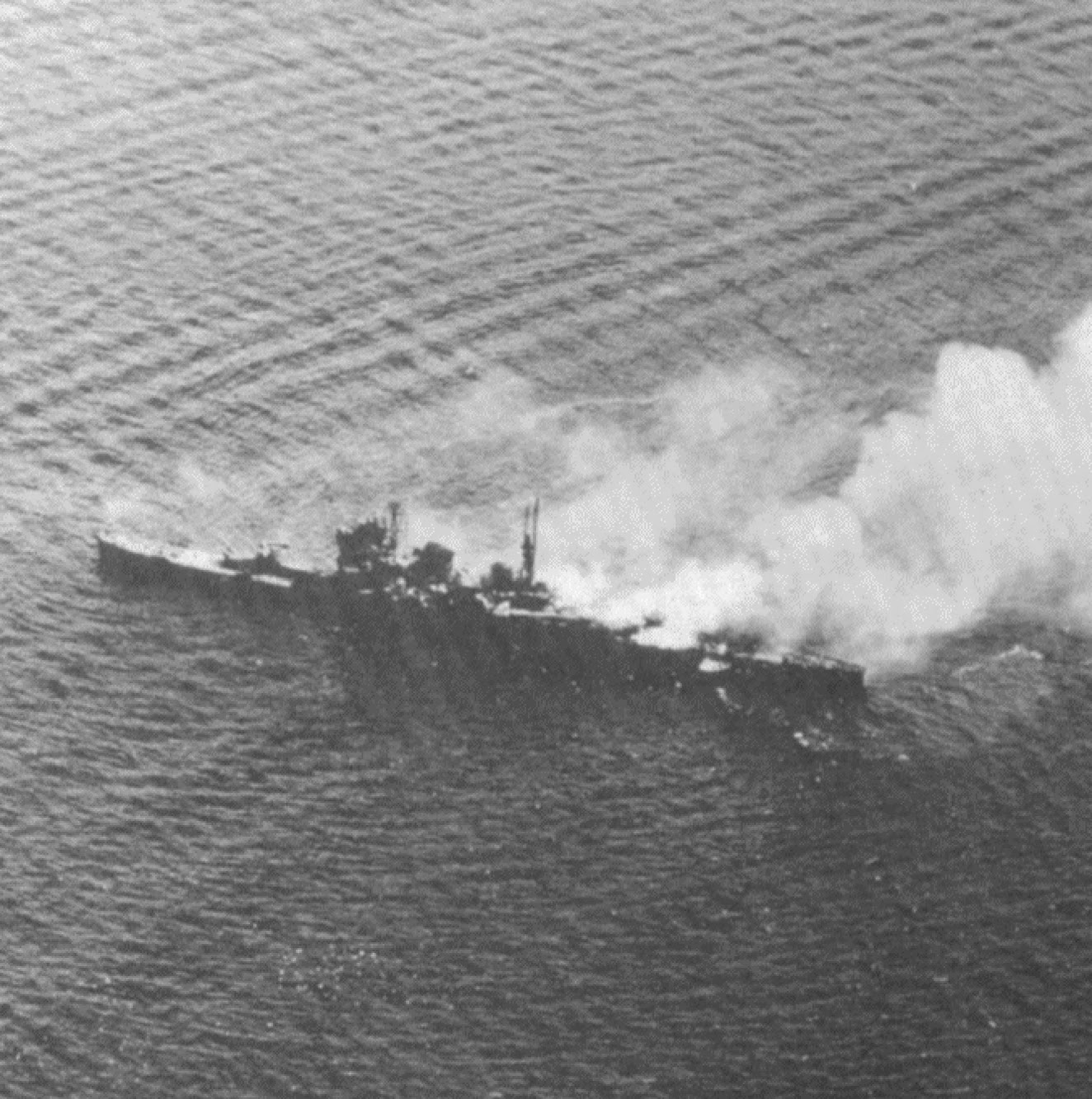 Japanese heavy cruiser Nachi and three torpedo wakes (U.S. Navy H272620).